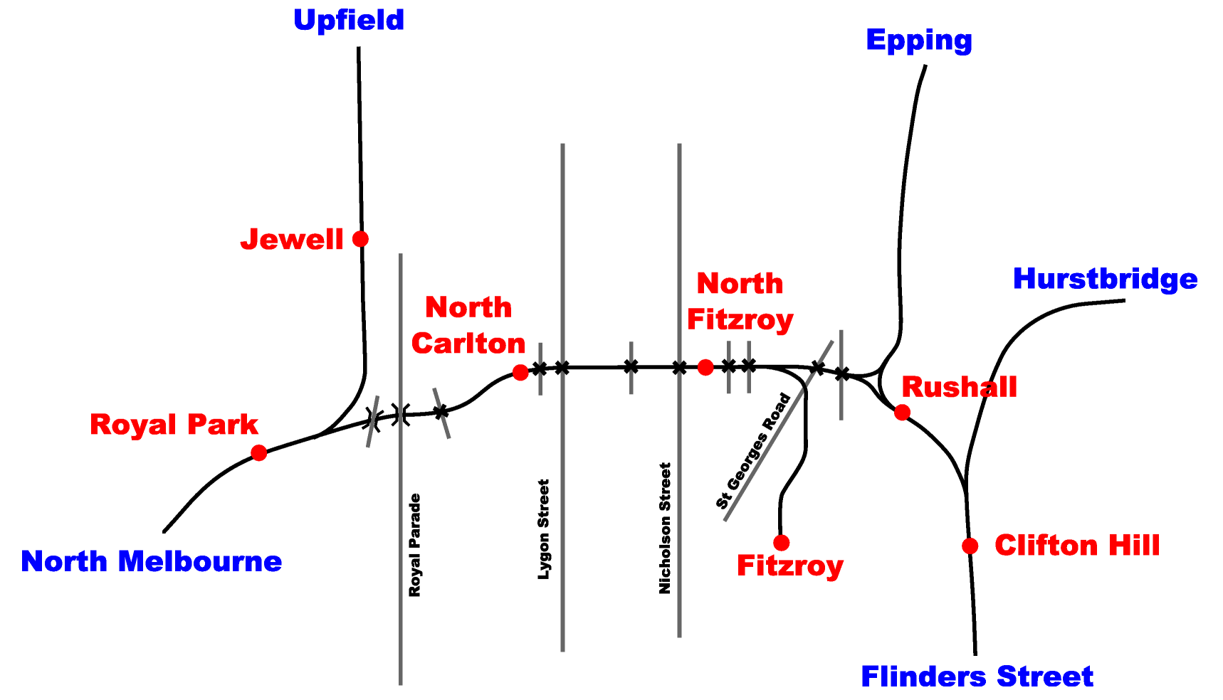 Diagram of the Inner Circle railway line, Melbourne Australia